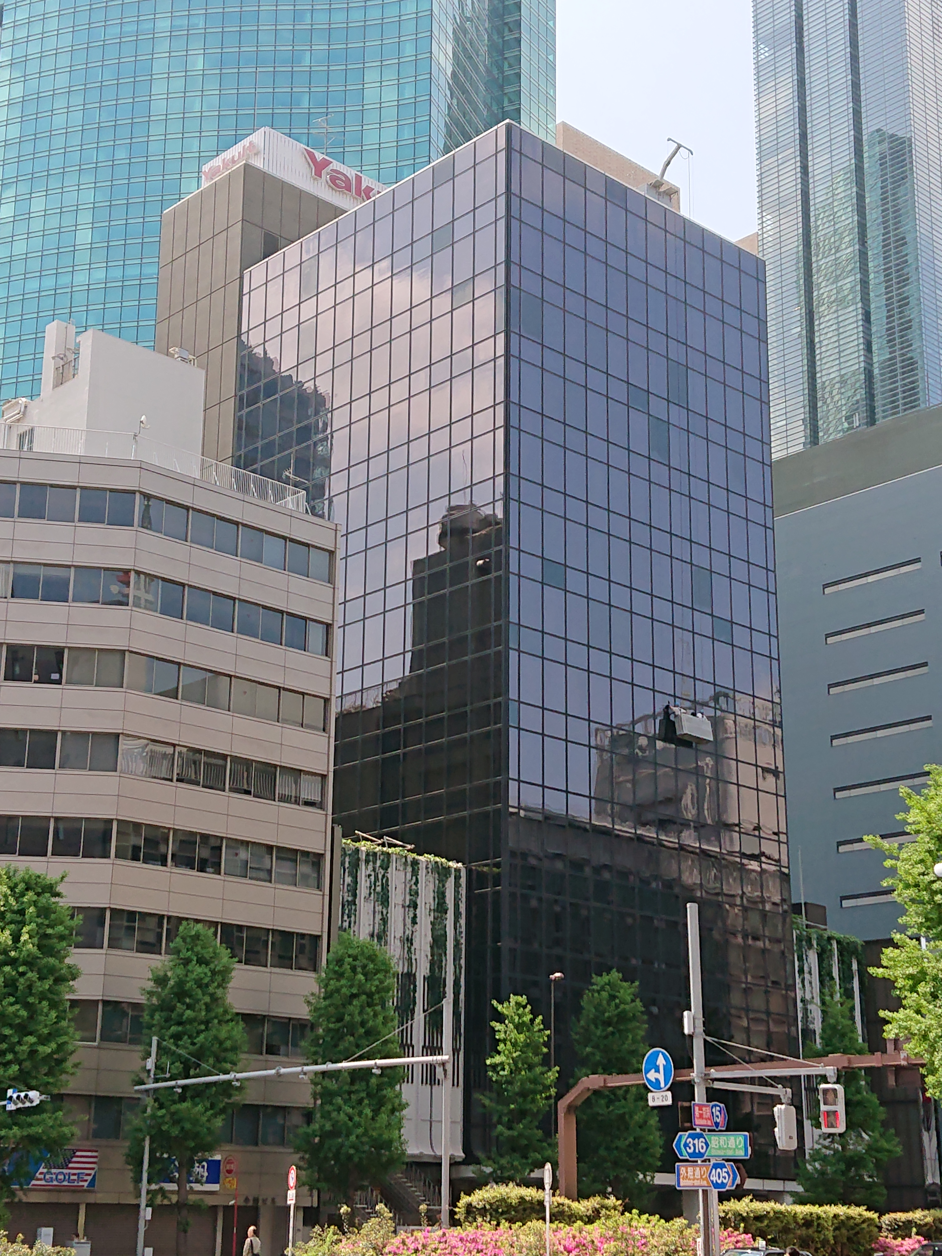 Yakult Honsha Building (ヤクルト本社ビル), at 1-1-19 Higashi-Shinbashi, Minato, Tokyo, Japan